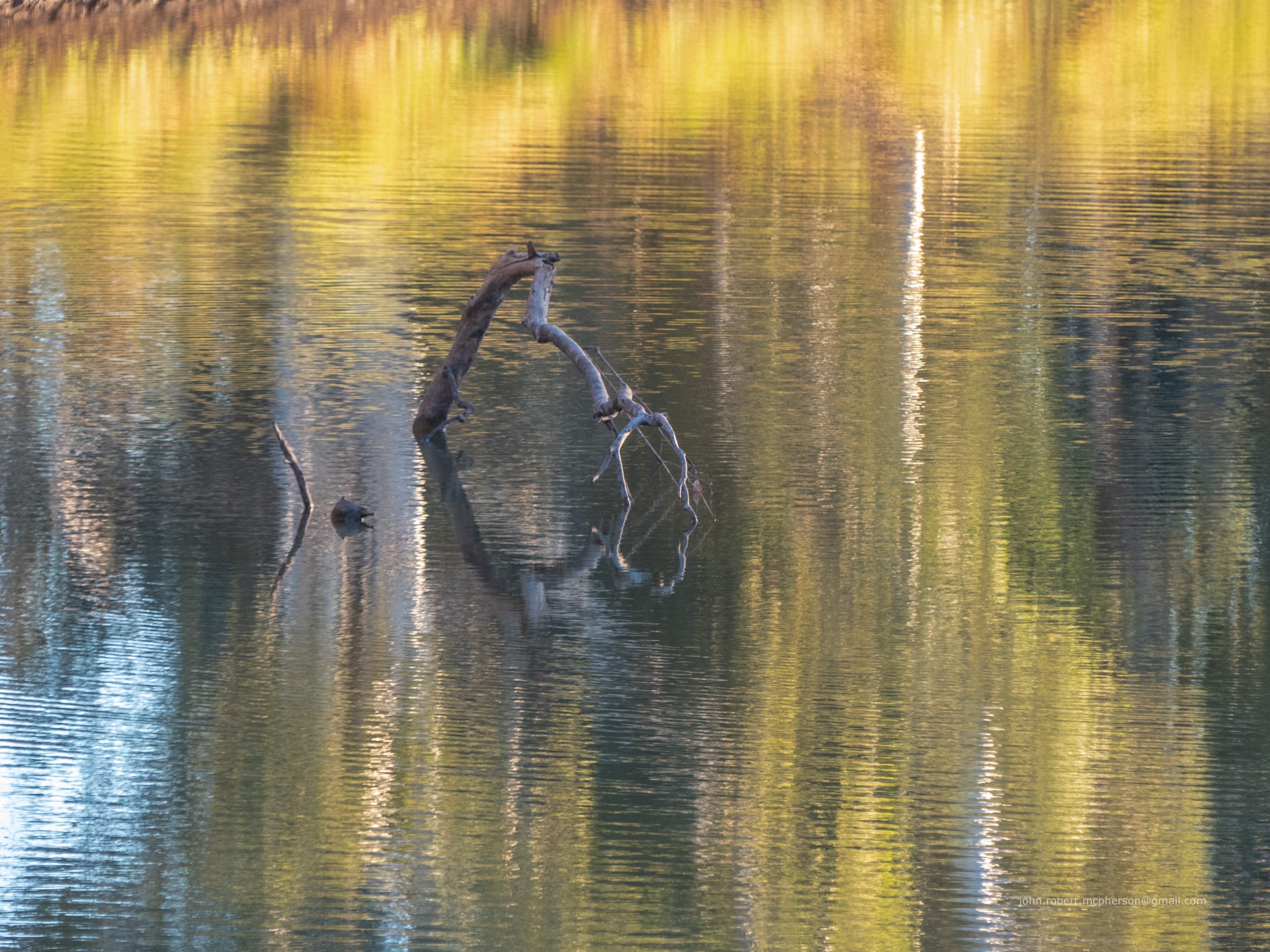 Snags in the Burke River provide vital shelter for fish and other aquatic life.